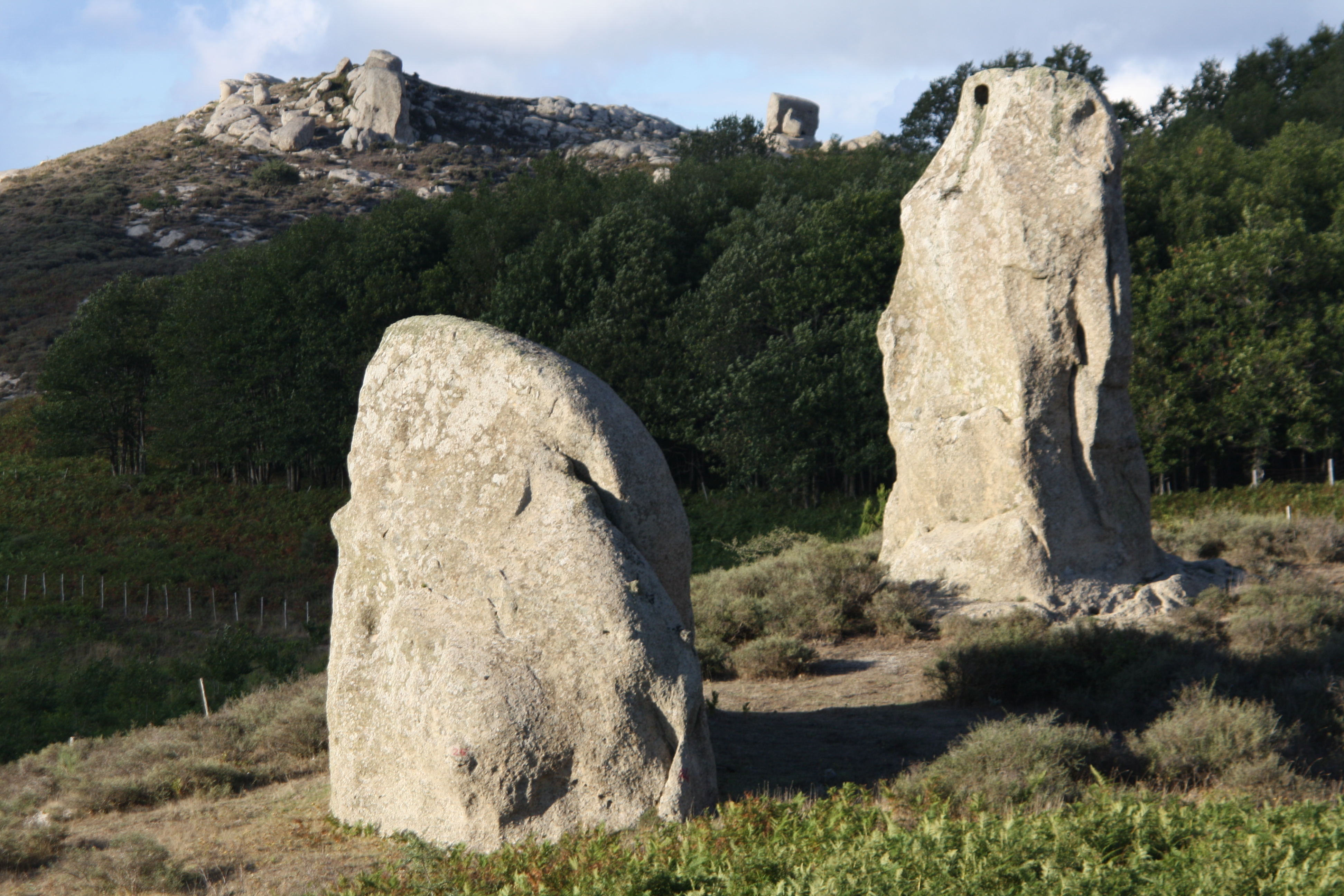 Pellican and Owl